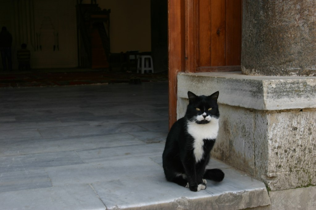 Cat outside a mosque in Şirince, Turkey